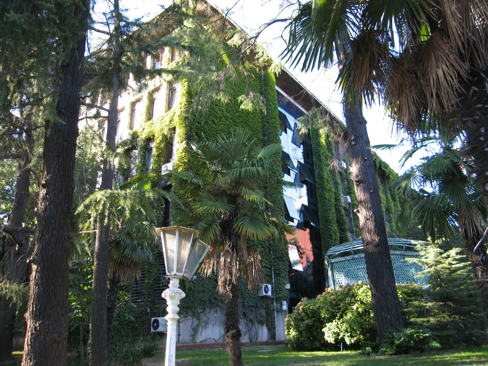 Yıldız Technical University in Istanbul, Main building, A block.